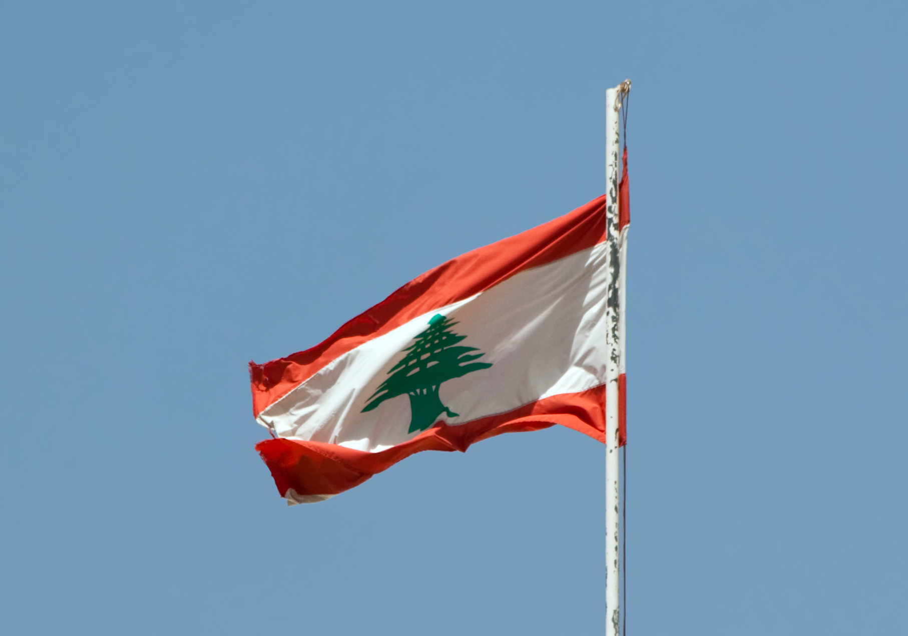 The Lebanese flag floating over the palace of Beit ed-Dine.